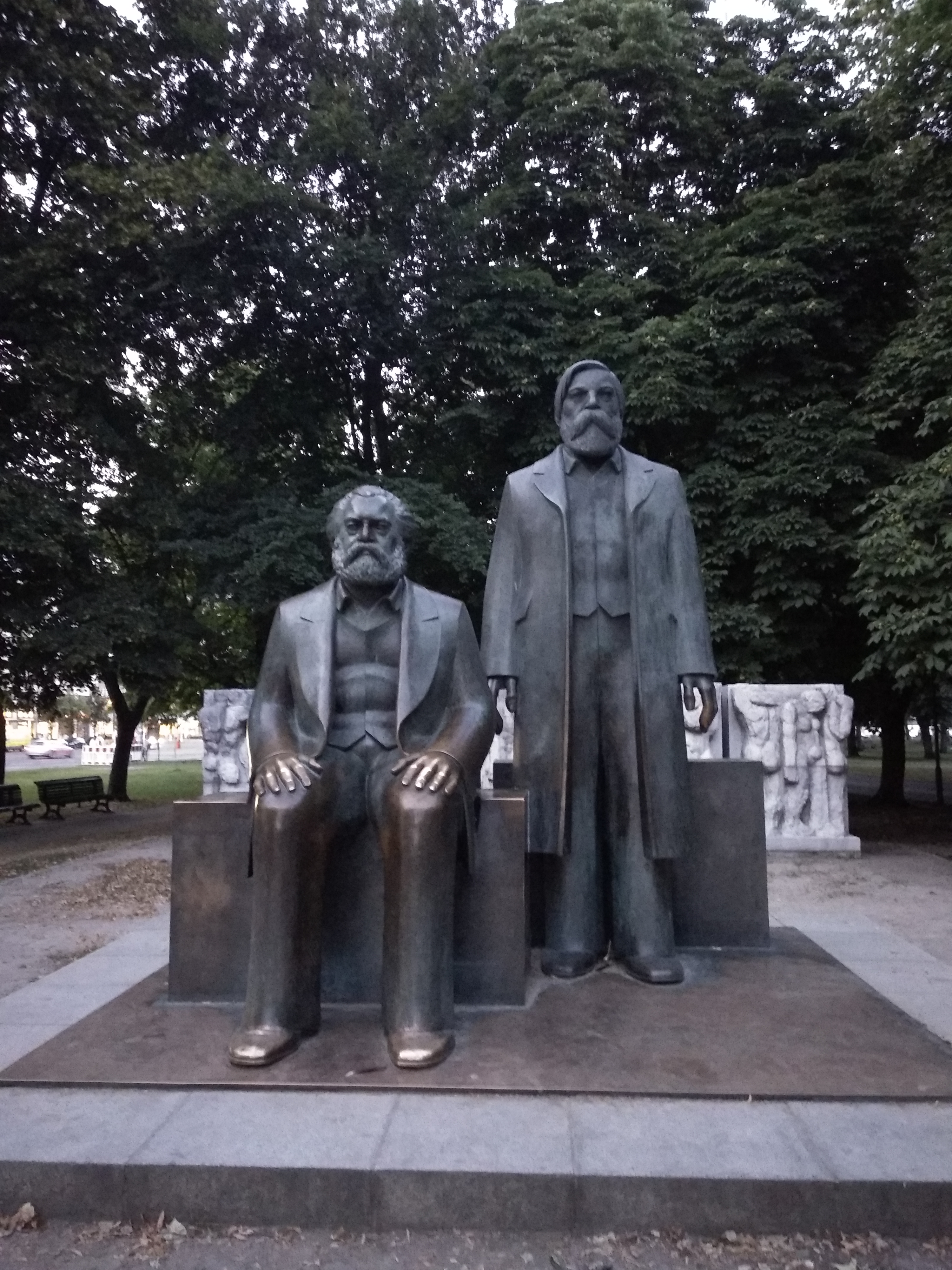 Marx's and Engels's statue in Germany Berlin Marx-Engels Forum